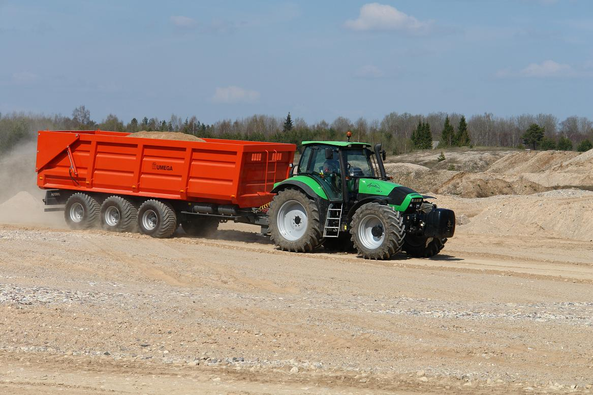 Umega tractor trailer semitrailer